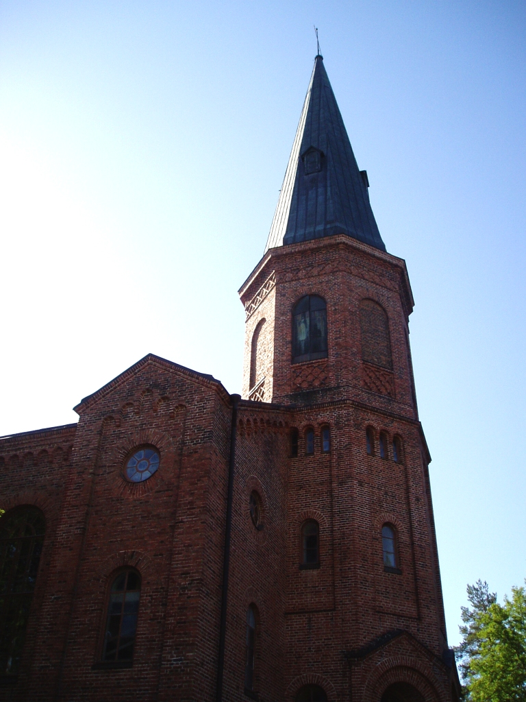 Liperi Church in Liperi, Finland